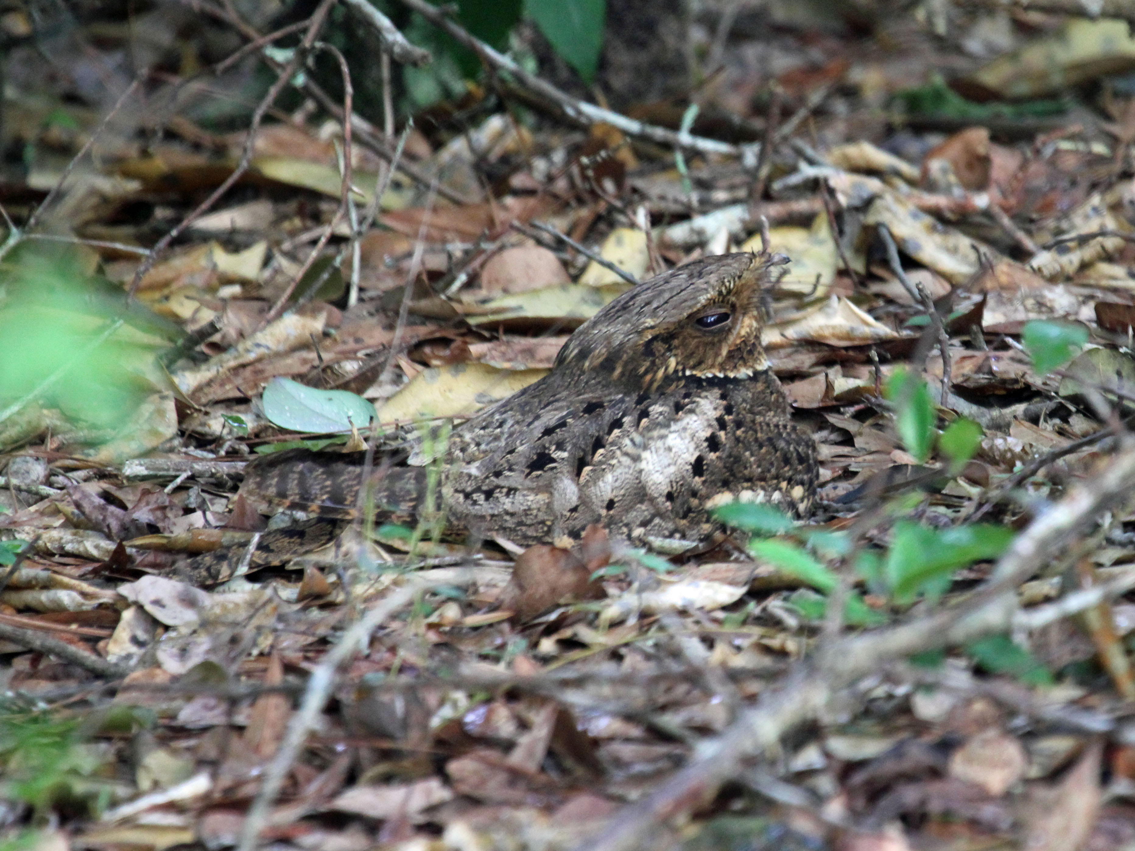 Female Chuck-will's-widow (Caprimulgus carolinensis) in Exum, North Carolina. Chuck-will's-widows has amazing camouflage.